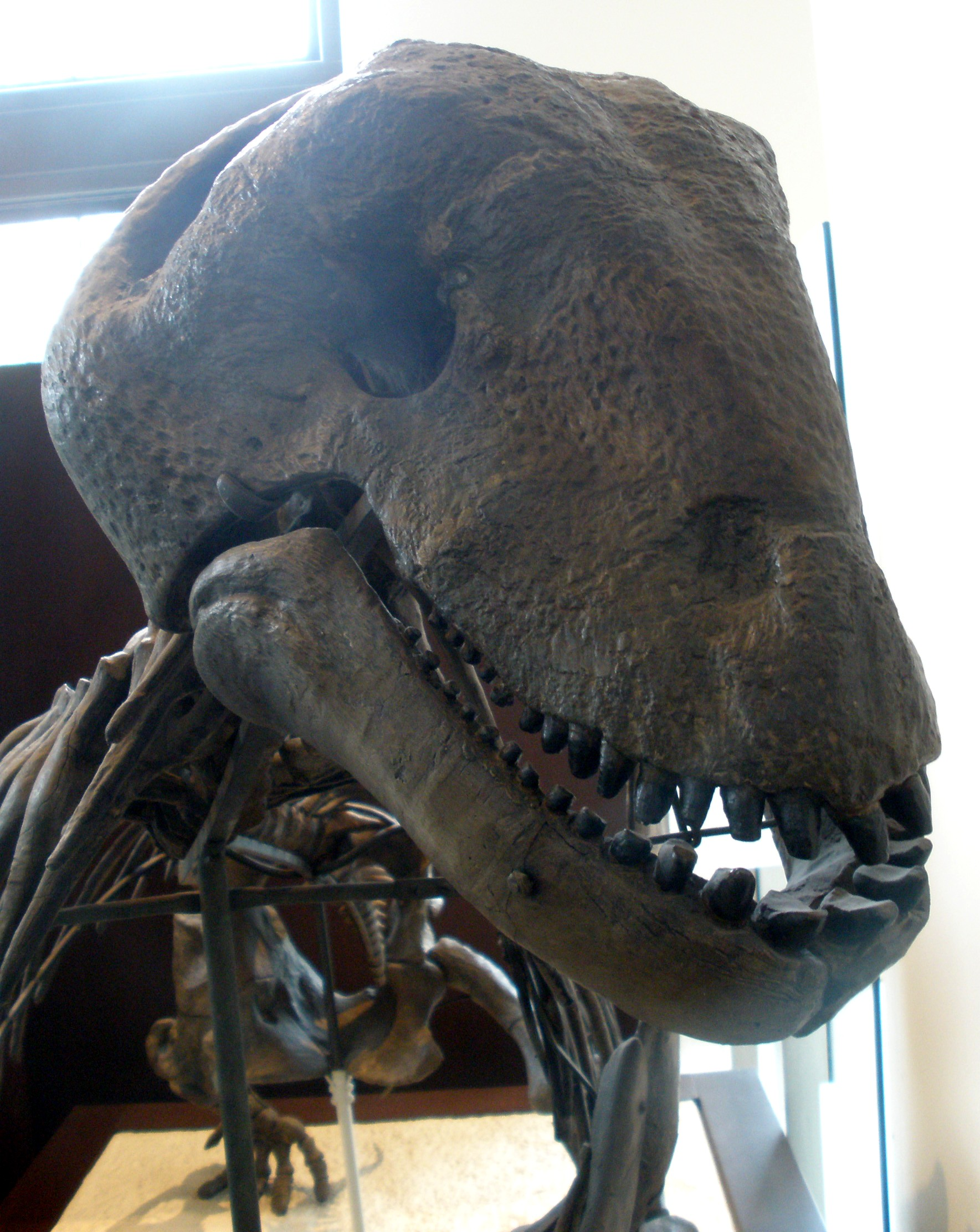 Skull of Moschops capensis, a fossil therapsid